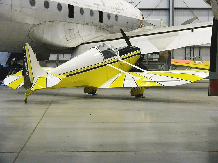 I took this photo of Stitts SA-3A Playboy C-FRAD at the Canada Aviation Museum on 09 Oct 2006